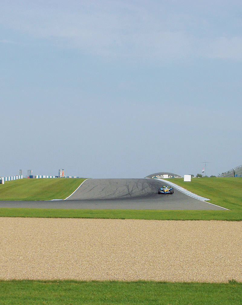 The Renault R25 Formula One car lapping the Donington park circuit during the 2006 World Series by Renault. At the wheel is Jonathan Cochet. Picture taken at the Melbourne hairpin.